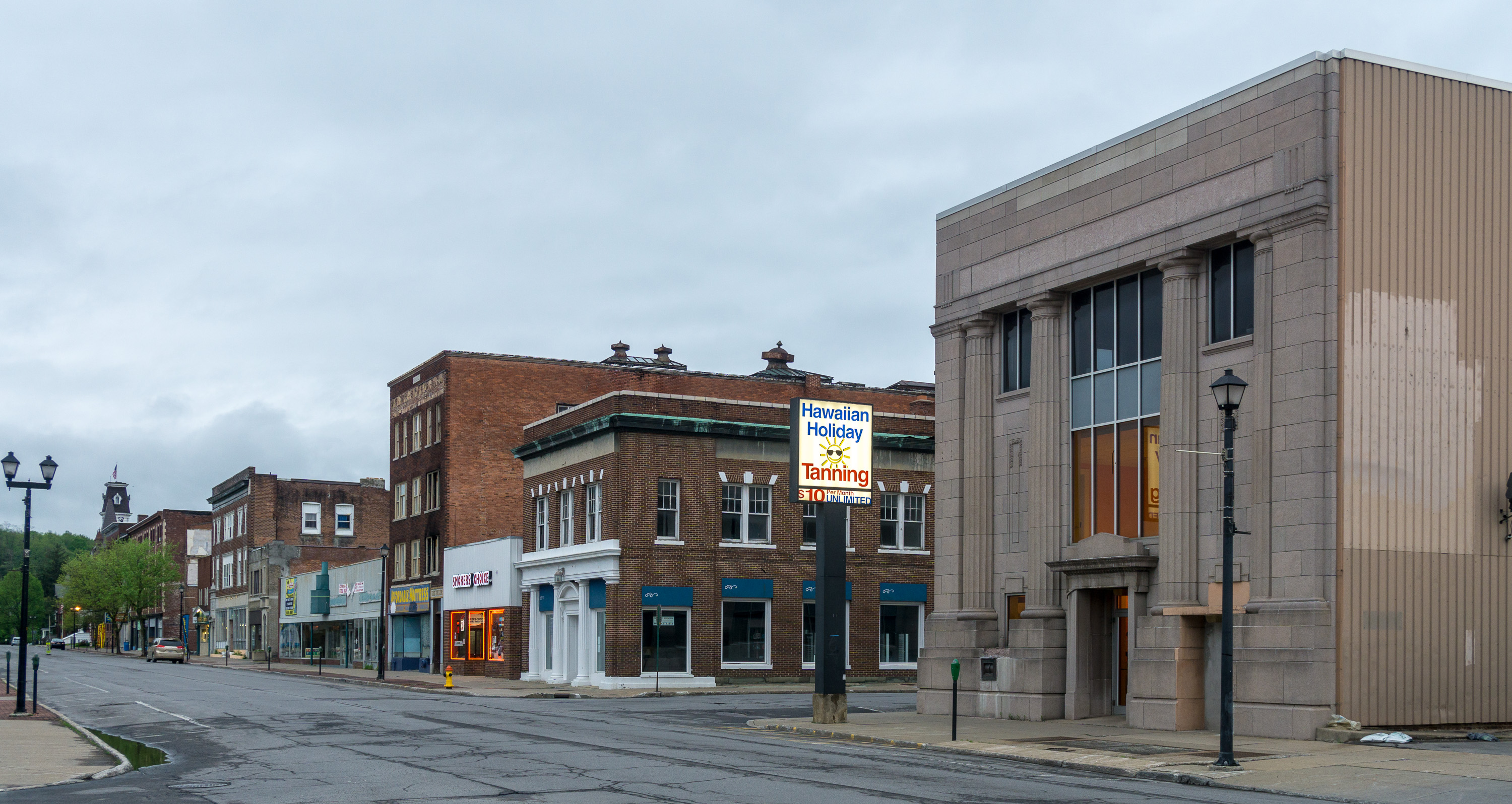 Looking down Main Street, Herkimer, New York